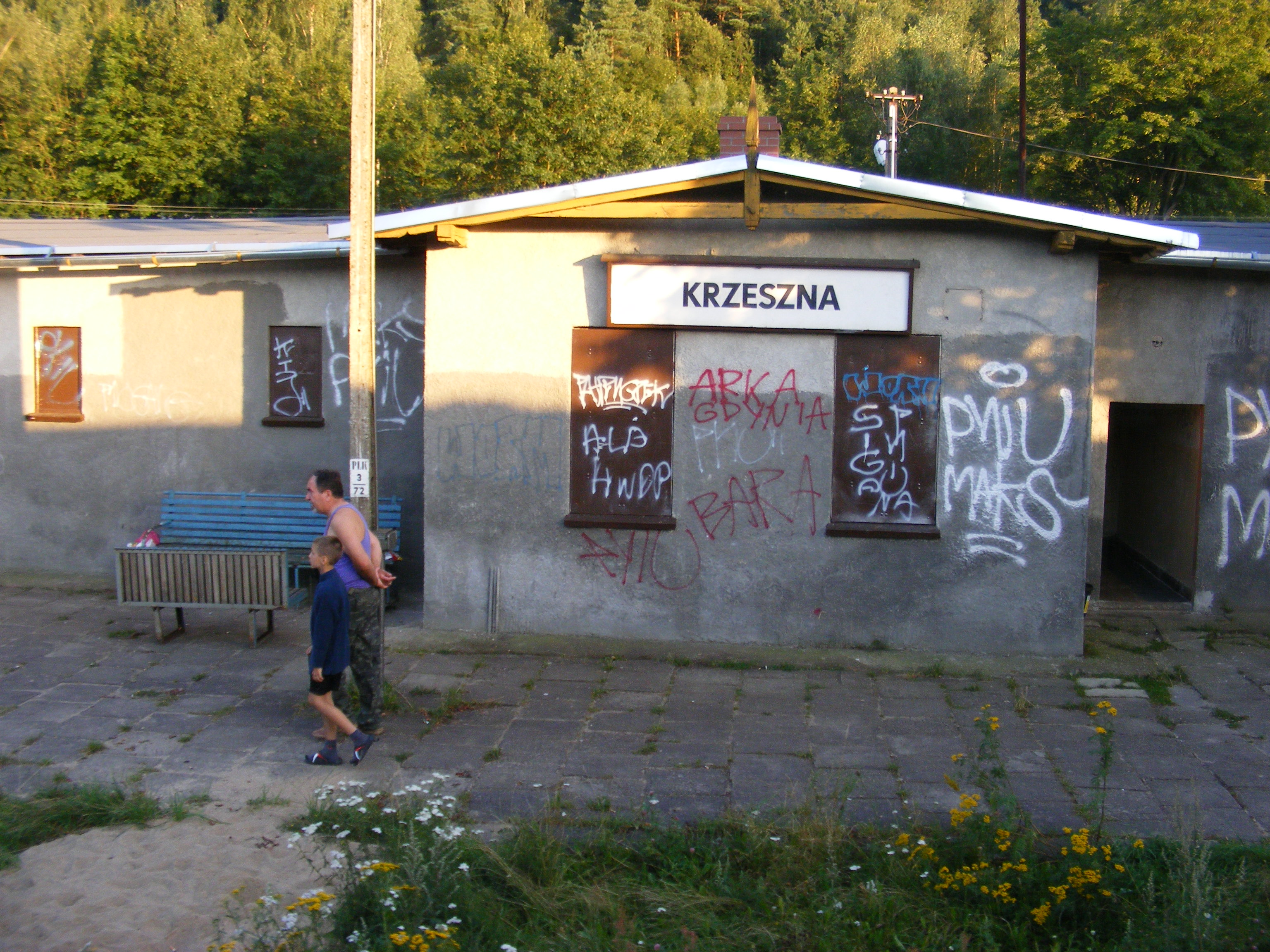 The abandoned railway station of Krzeszna, Pomeranian Voivodeship, Poland.